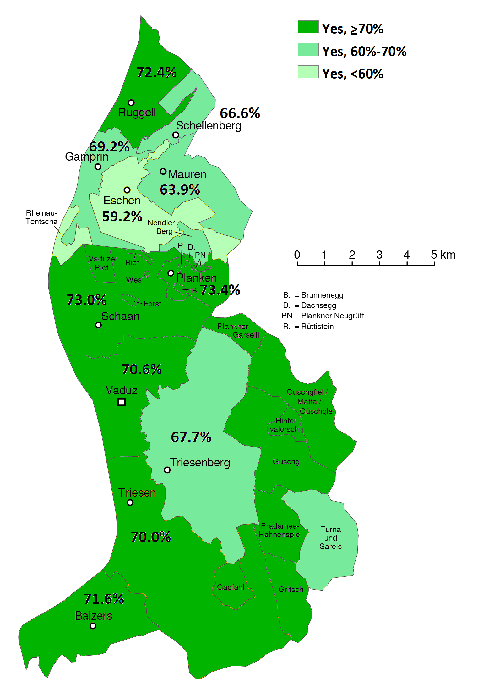 A map of how the Liechtenstein electorate voted in the 2011 registered partnership referendum.